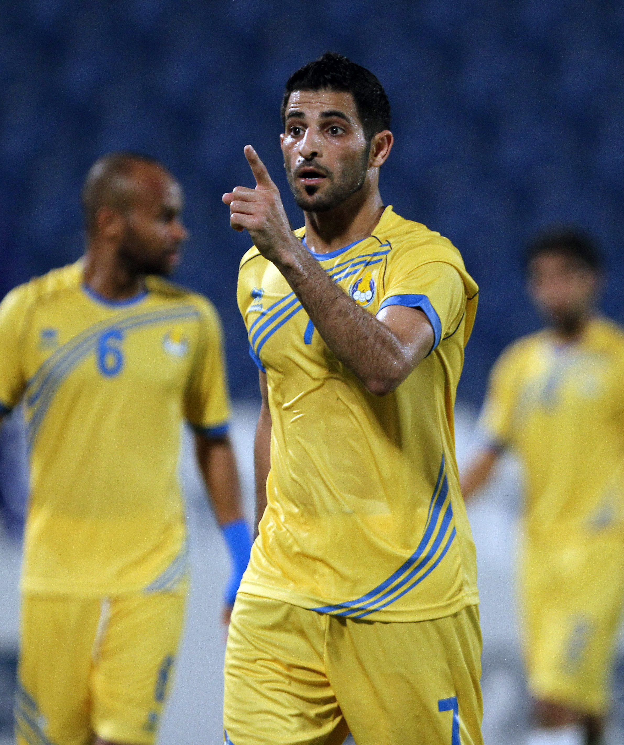 Al Gharafa's Fahad Al Shammari celebrates a goal during the Qatar Stars League. Picture by Vinod Divakaran